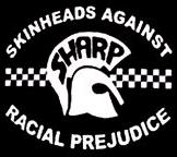 Skinheads Against Racial Prejudice (universal logo)